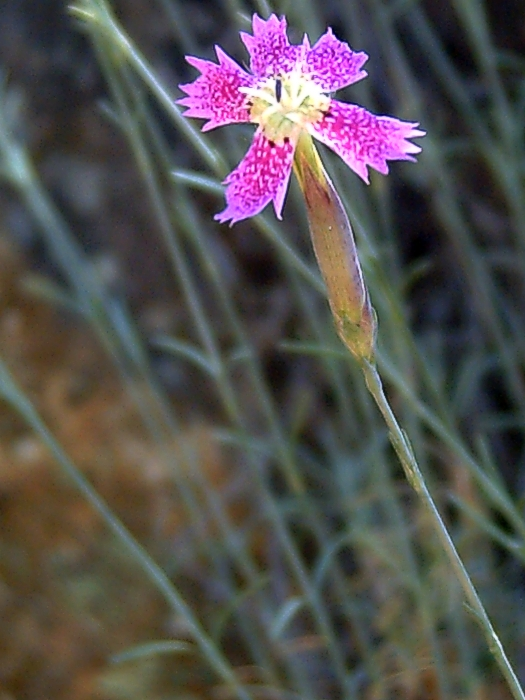 A work release by Javier martin Francisco Javier Martin Lopez, a plant Dianthus lusitanus, in Sierra Madrona, Ciudad Real, Spain 2006, May 25. A free donation to Wikipedia.